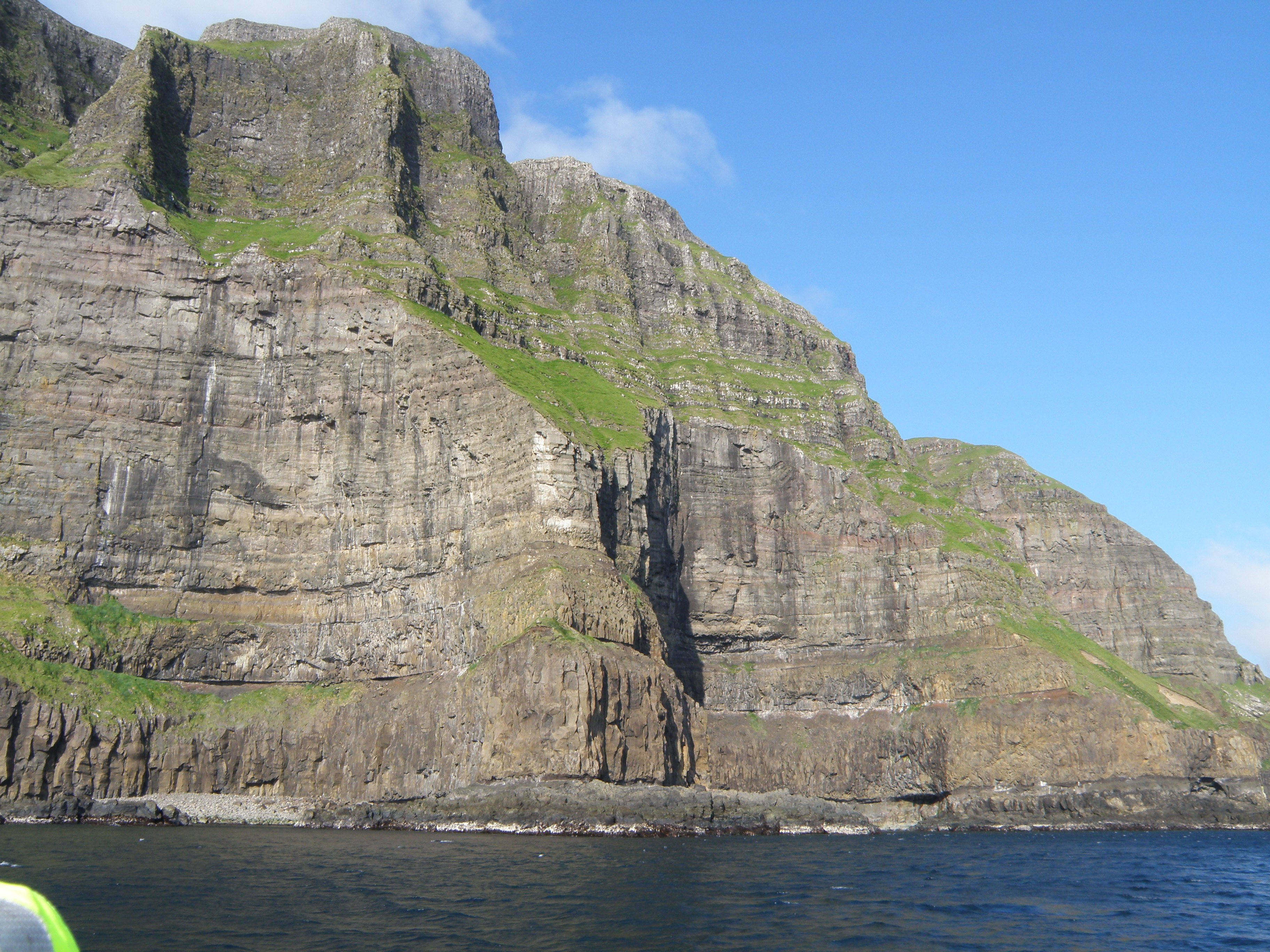 Grímsfjall is a mountain in Hvalba, Suðuroy, Faroe Islands. The mountain is between the two Eiði (isthmus): Hvalbiareiði and Norðbergseiði. Grímsfjall is 327 meter high. The mountain is also a sea cliff, on this photo we can see Grímsfjall as a cliff, shaping the west coast of Suðuroy, which is known for its vertical cliffs on the west coast. This photo was taken from a boat trip on 28 June 2009. The boat trip started on Hvalbiareiði. Føroyskt: Myndin er av bjørgunum vestanfyri Hvalba. Bergið er partur av einum fjallið, sum eitur Grímsfjall. Grímsfjall er 327 metrar høgt á hægsta staðnum og er millum Hvalbiareiði (Fiskieiði) og Norðbergseiði.